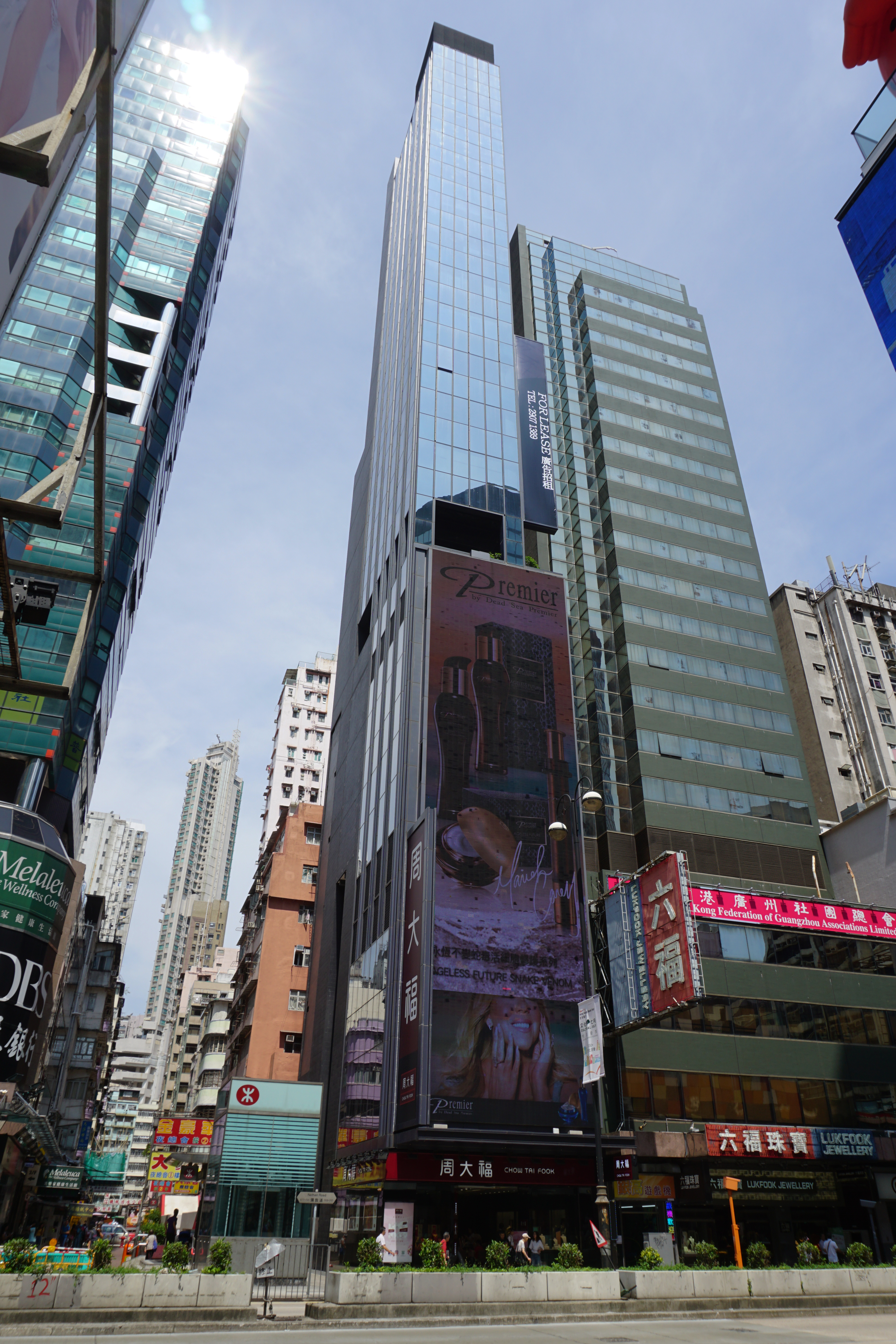 Le Diamant in Mong Kok, Hong Kong.